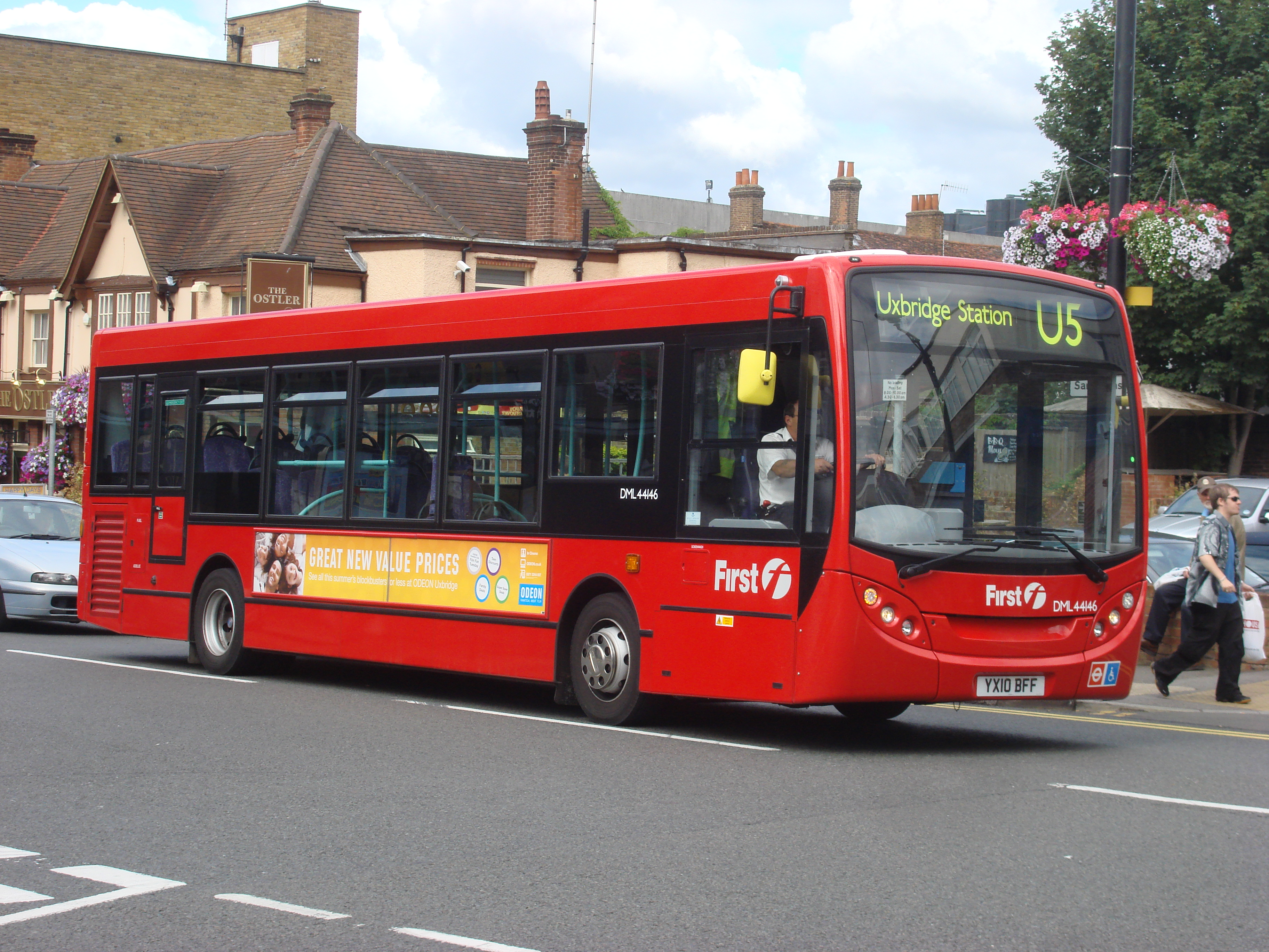 A London Bus .